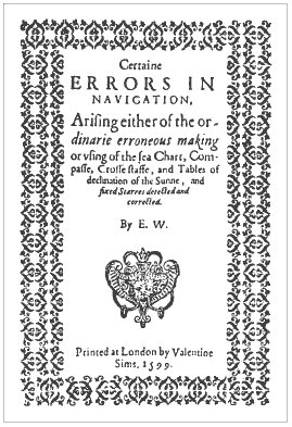 Title page of Edward Wright (1599) Certaine Errors in Navigation, arising either of the Ordinarie Erroneous Making or Vsing of the Sea Chart, Compasse, Crosse Staffe, and Tables of Declination of the Sunne, and Fixed Starres Detected and Corrected. (The Voyage of the Right Ho. George Earle of Cumberl. to the Azores, &c.), London: Printed ... [by Valentine Simmes and W. White] for Ed. Agas